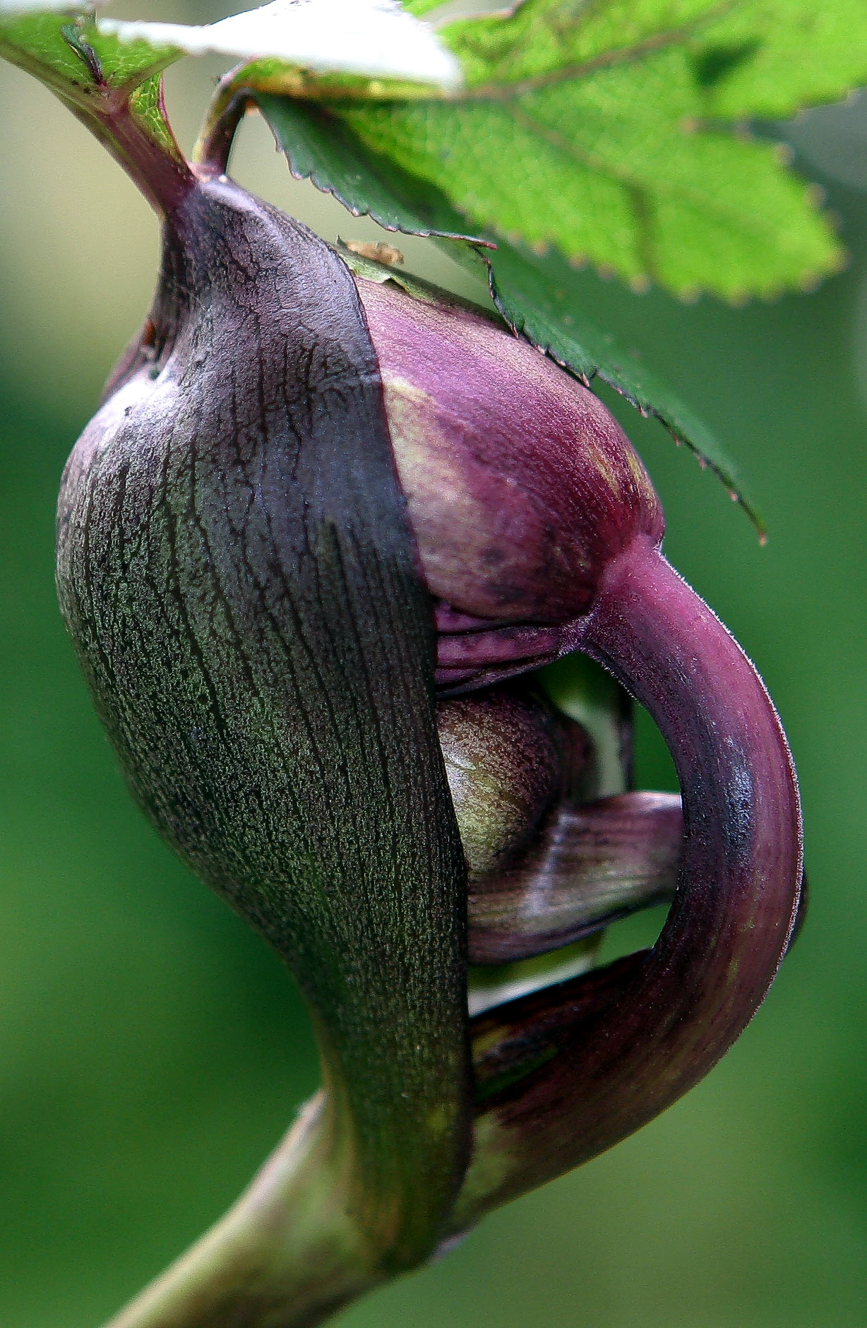 Own made picture taken 08/10/2007. Angelica gigas.